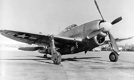 Republic XP-47J 3/4 front view. (U.S. Air Force photo)